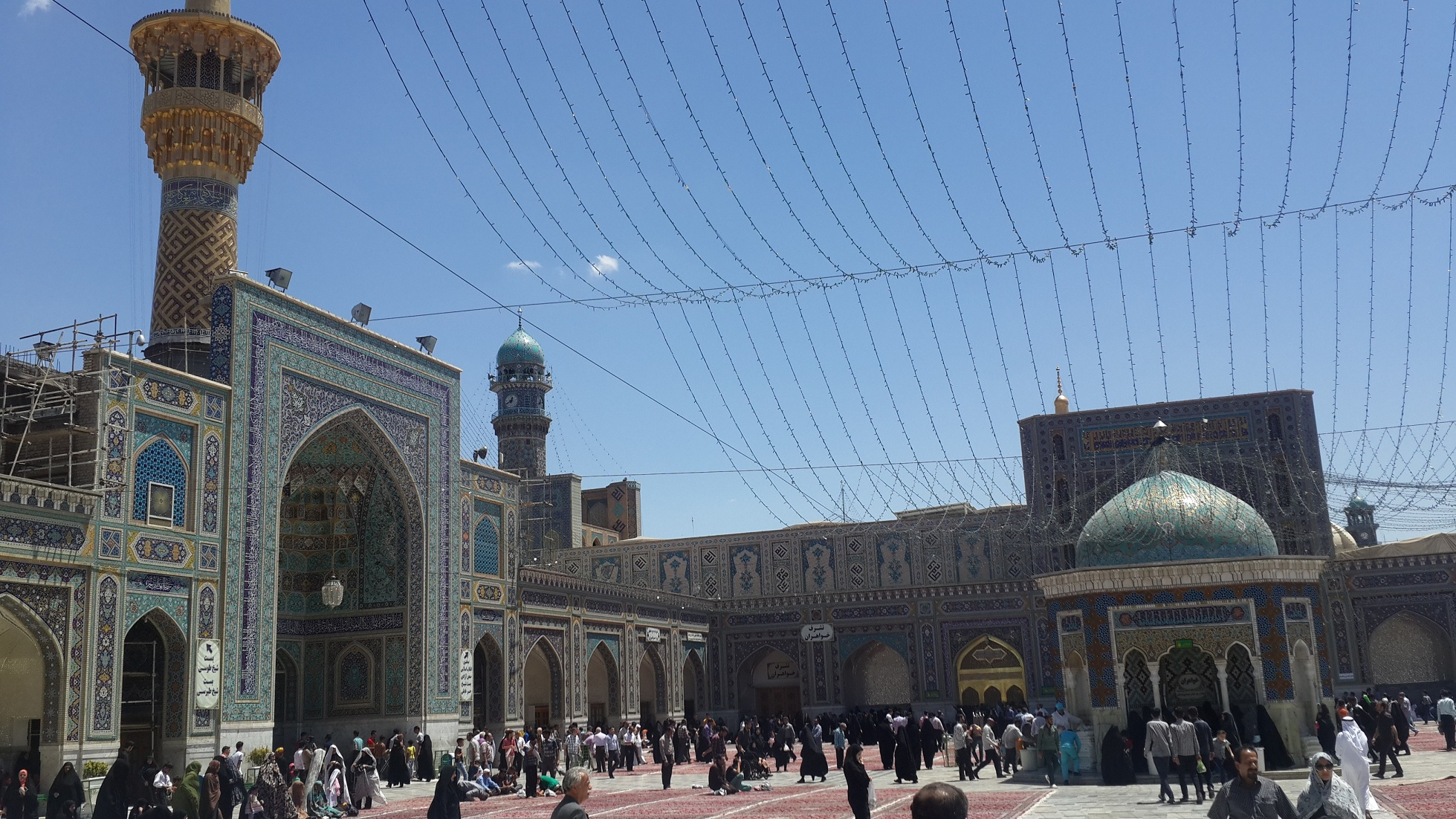 Imam Reza shrine